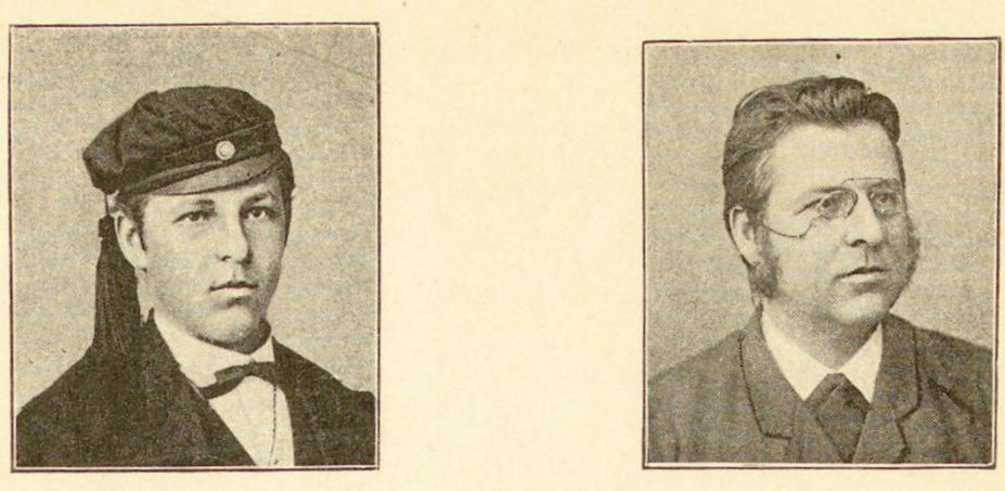 Norwegian industrialist Fredrik Hiorth (1851–1931)